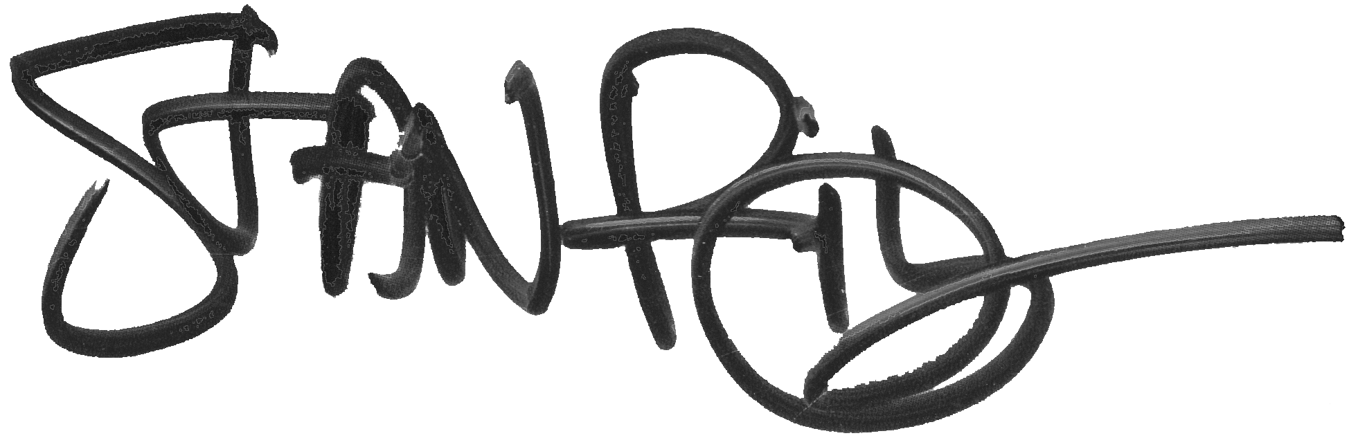 Stan Ridgway's Signature